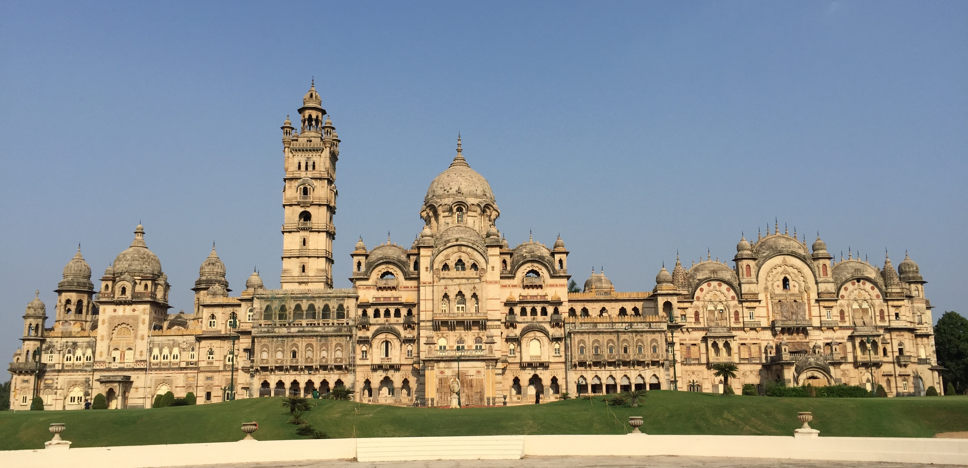 Laxmi Vilas Palace, Vadodara